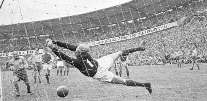 Ullevi, then Nya Ullevi, is a result of political consensus. May 29, 1958 was the first game: Swedish national team against Alliansklubbarna. In the picture Gunnar Gren strikes a penalty which was the first goal at the Ullevi Stadium. Ronald Johansson saved in this mode but Gren struck the rebound.